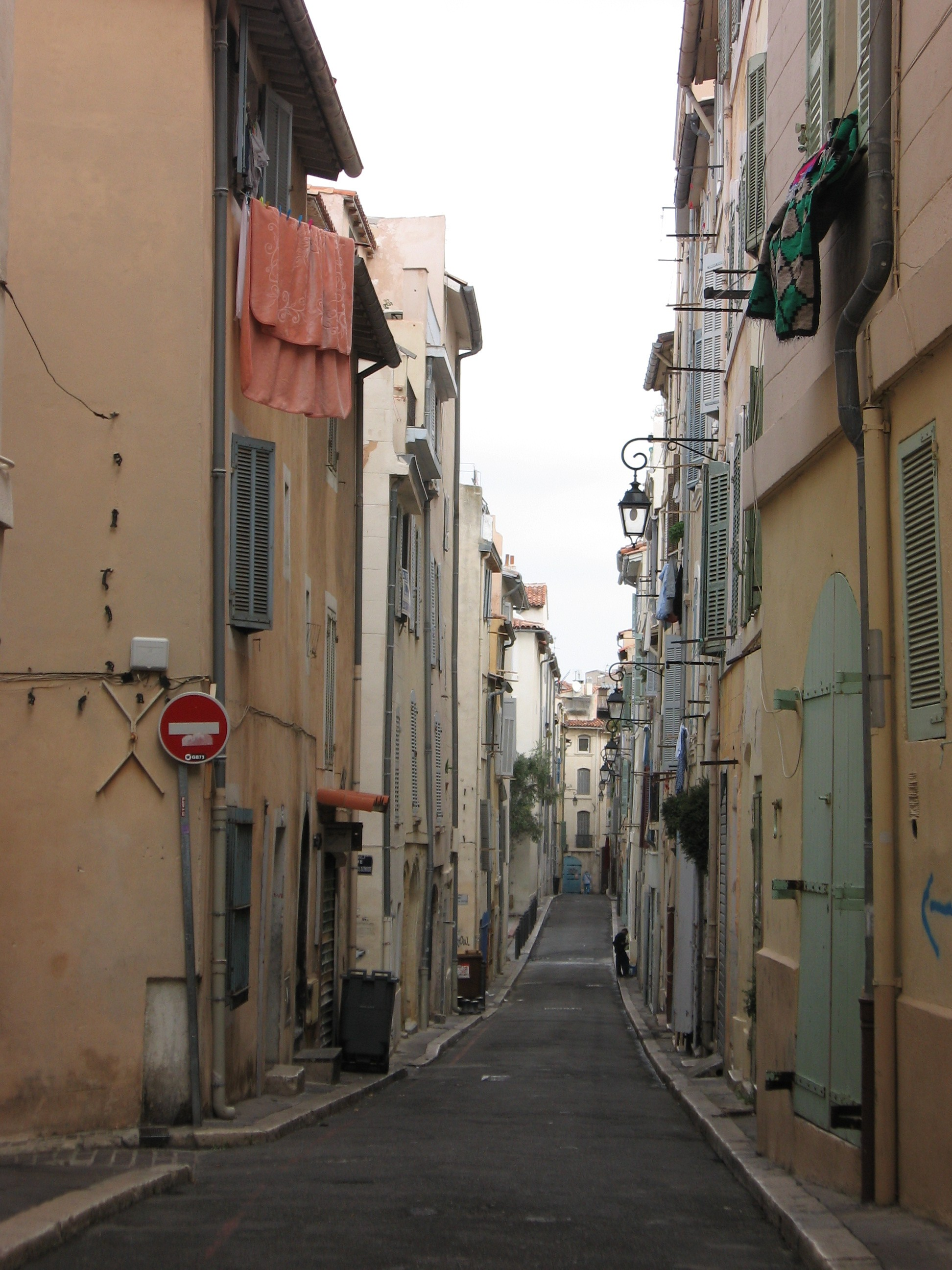 A street in Le Panier, a quarter of Marseille (France)